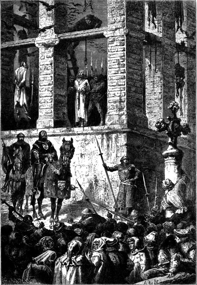 The Execution of Enguerrand de Marigny (1260-1315), hanged on the public gallows at Montfaucon, Paris, France